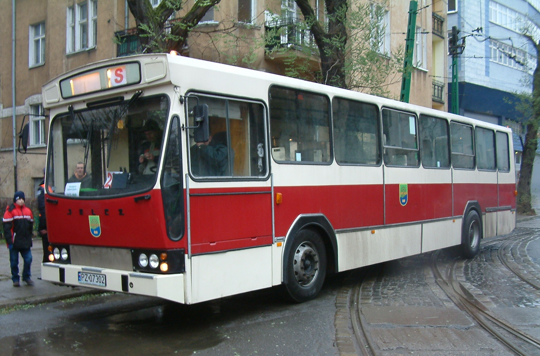 Jelcz PR110M (#1) bus from Czerwonak to Poznań, Poland. Built 1991, Przedsiębiorstwo Wielobranżowe 'Transkom' in Koziegłowy operator.